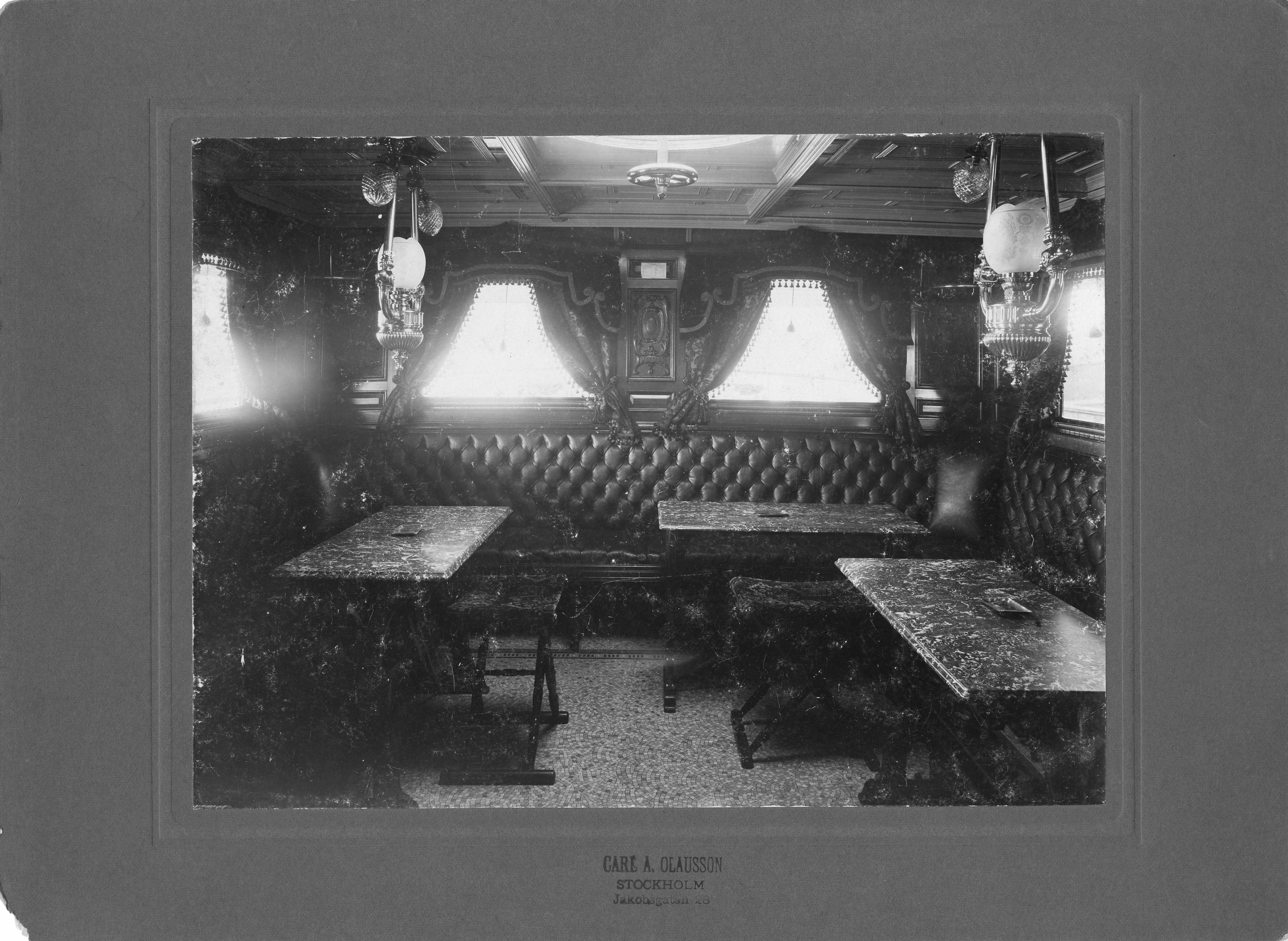 Smoking room onboard s/s Arcturus, 1898-1957